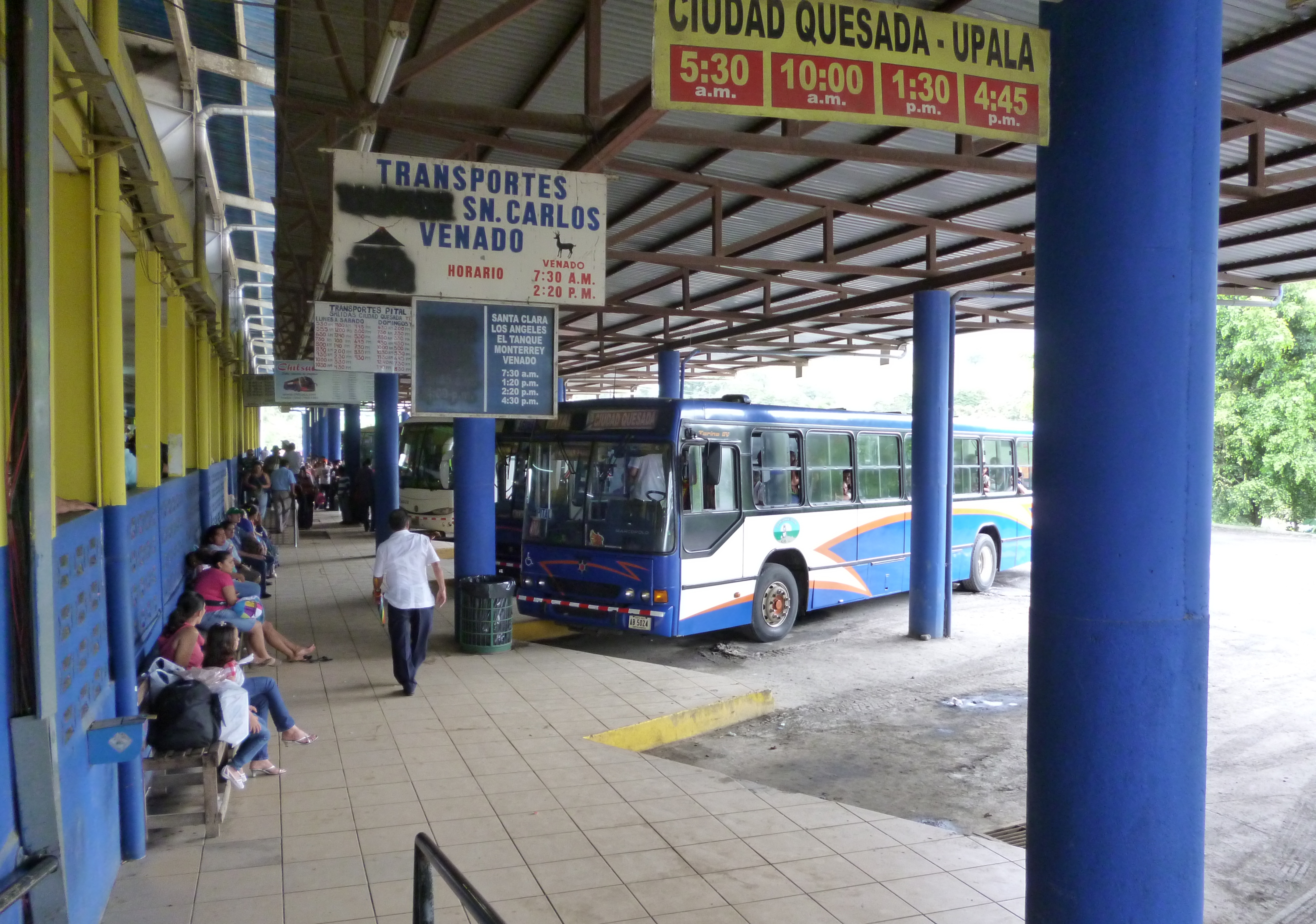 Ciudad Quesada, Costa Rica bus station.